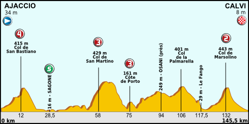 Tour de France 2013 - Profile Stage No. 3